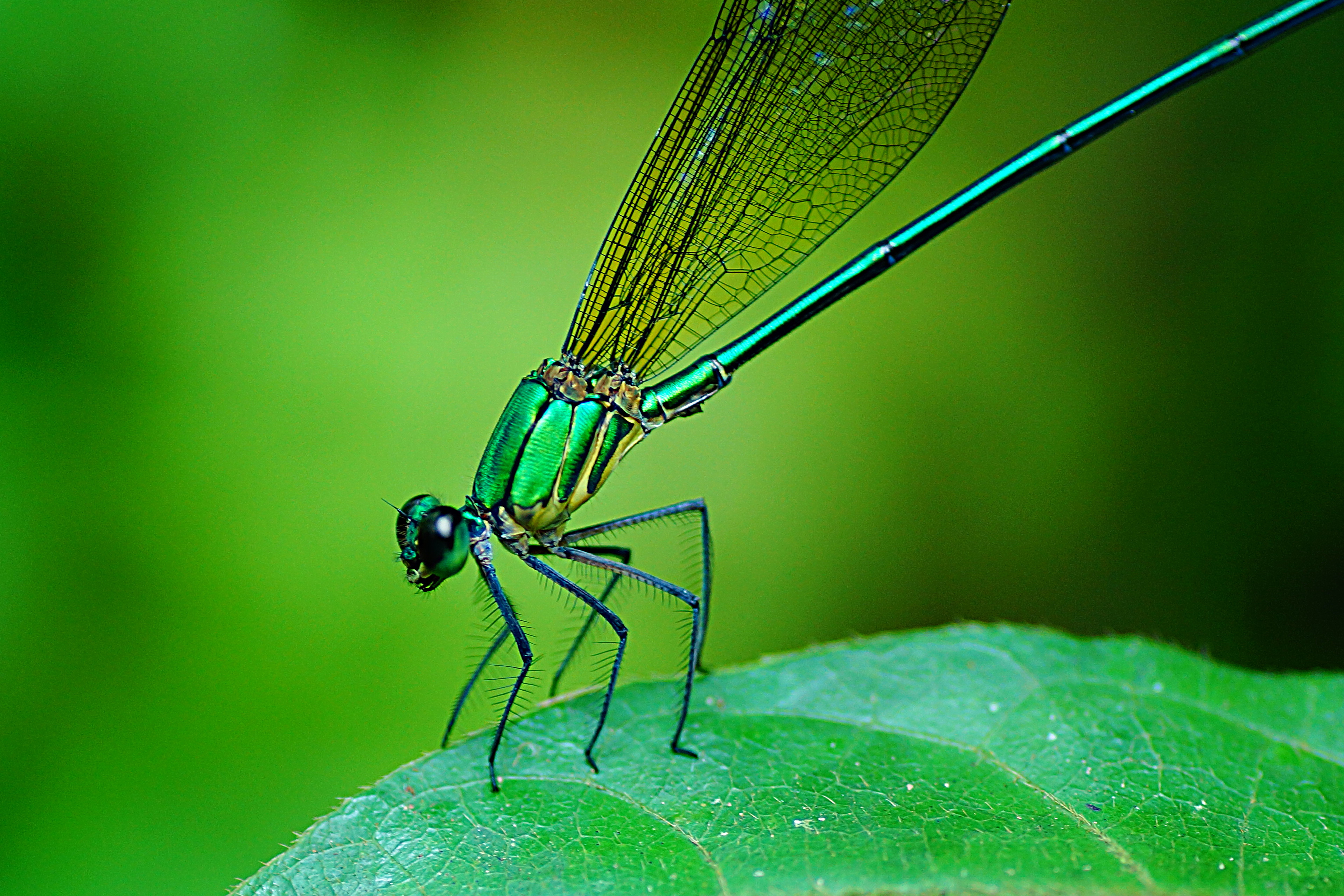 Clear-winged Forest Glory